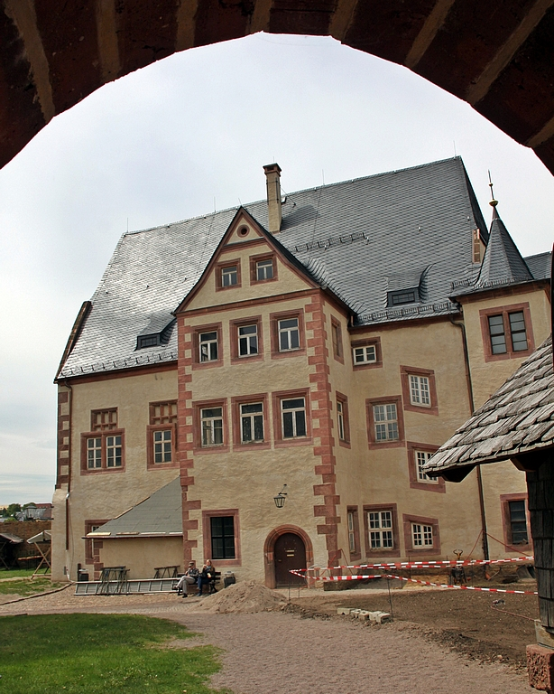 Leisnig: Mildenstein Castle.